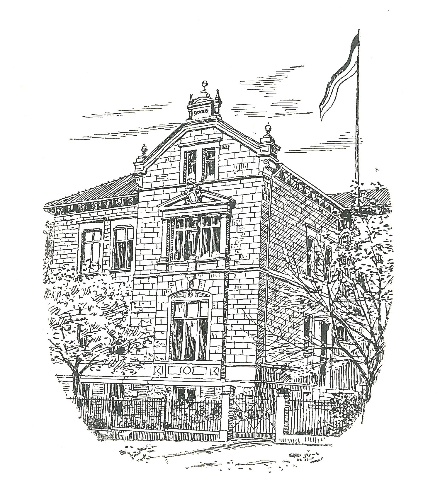 Former house of student fraternity Corps Saxonia Göttingen (Germany), Theaterplatz 5 Früheres Haus des Corps Saxonia Göttingen, Theaterplatz 5